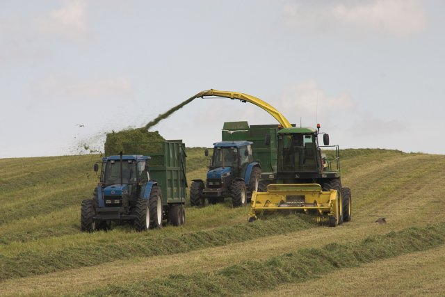 Silage team in action Silage harvest in full swing - a field at Hall Farm, Westerdale.